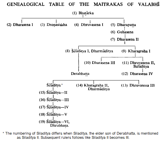 Family Tree of Maitrakas of Valllabhi dynasty ruling in western India.